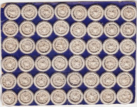 Wash buttons